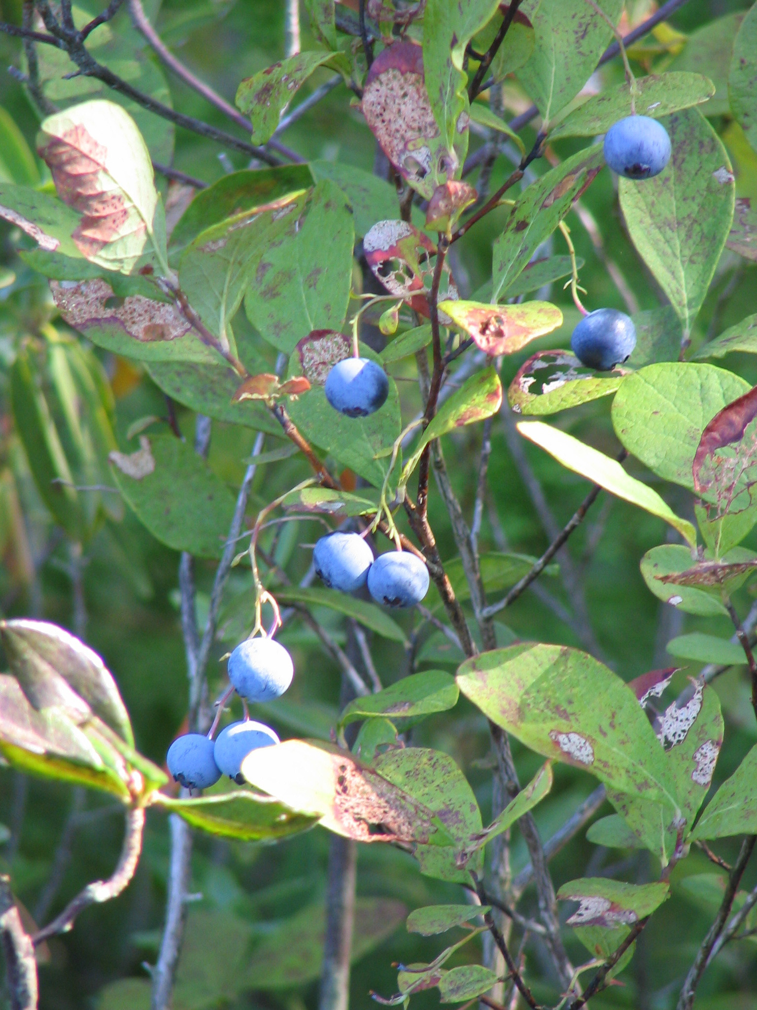 Blueberries in the New Jersey Pinelands.